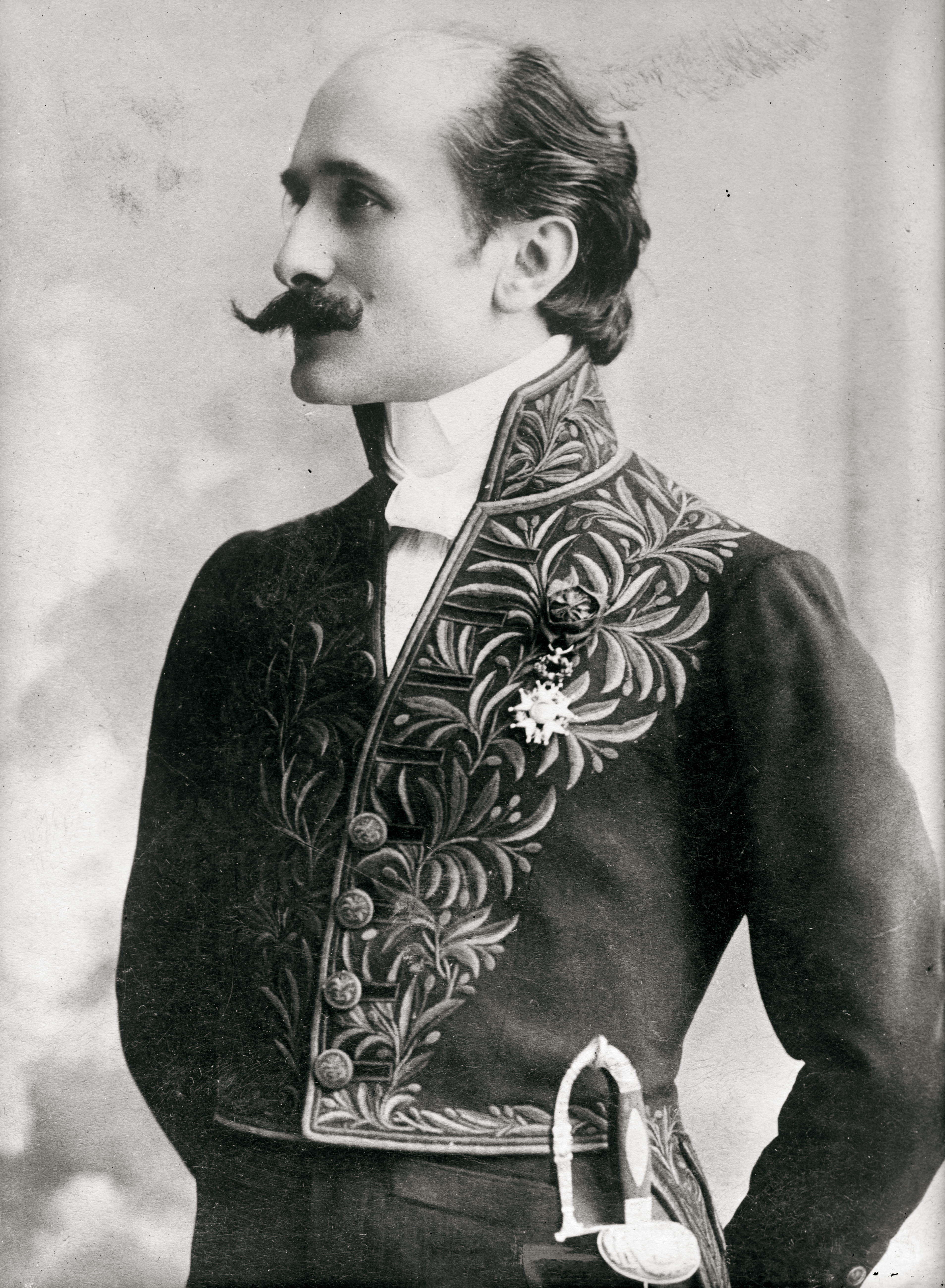 French playwright Edmond Rostand in the official uniform of the Académie française